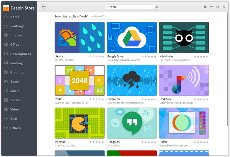 Screenshot of Deepin Store in deepin 15.